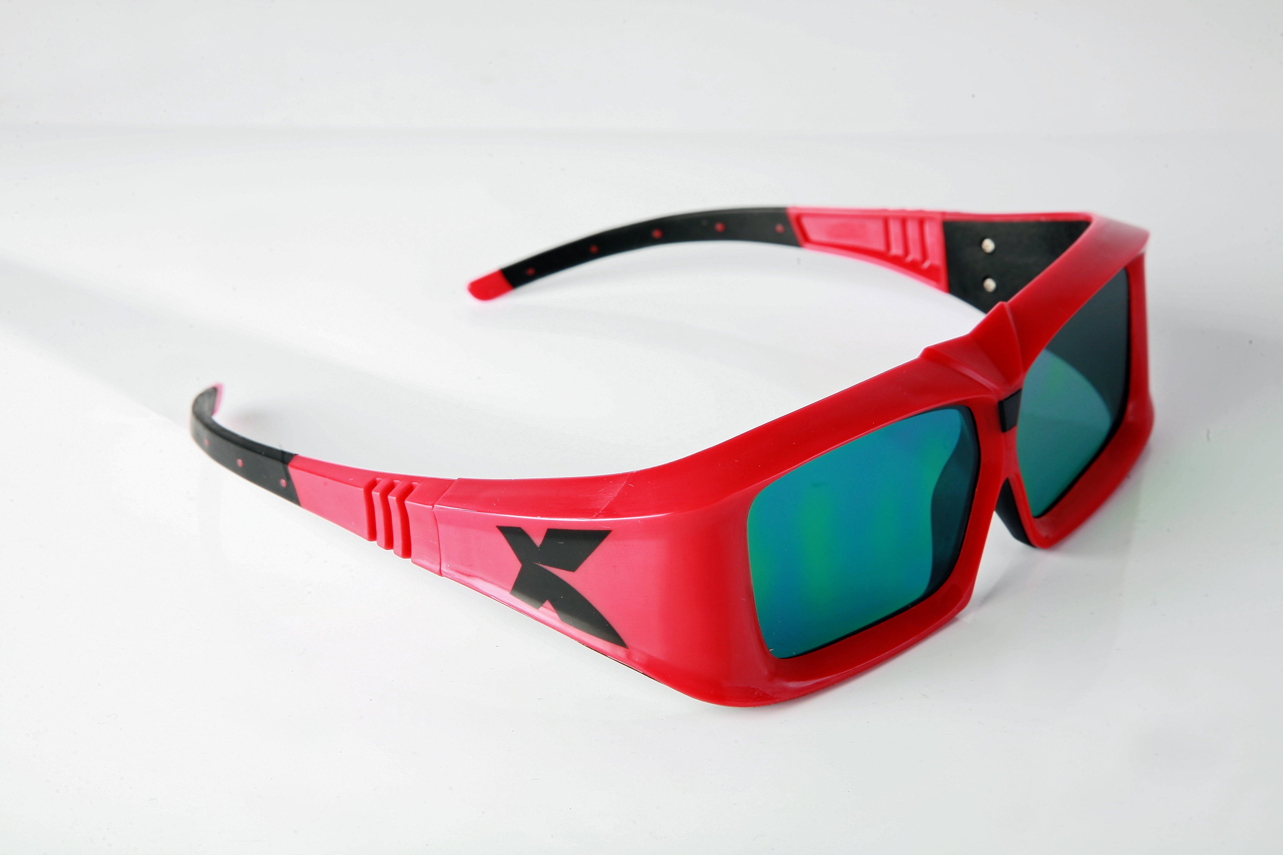 XpanD 101 glasses